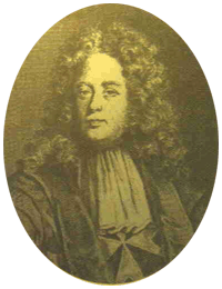 Marc'Antonio Zondadari (d. 1722)